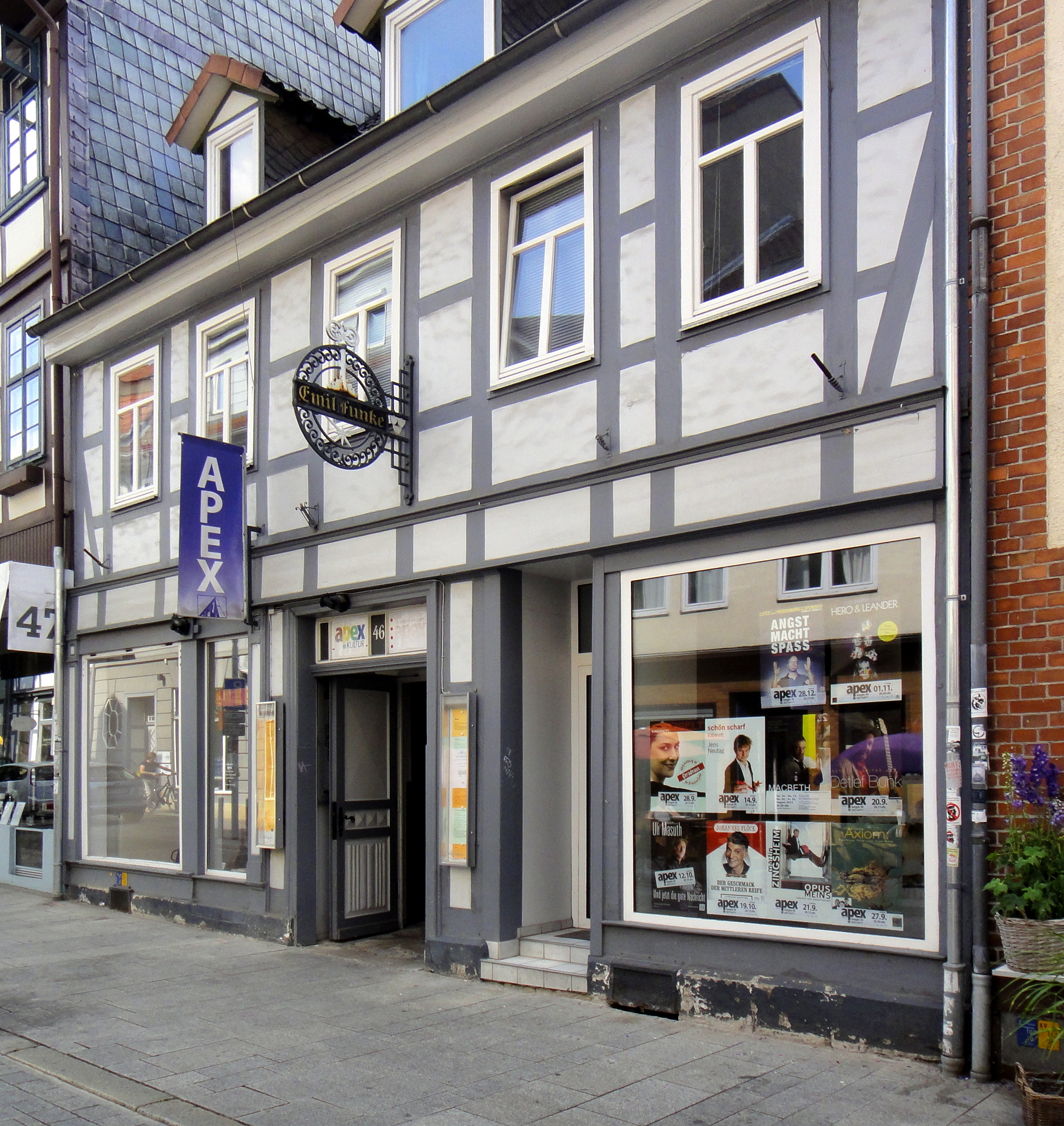 Apex, Göttingen, Burgstraße 46